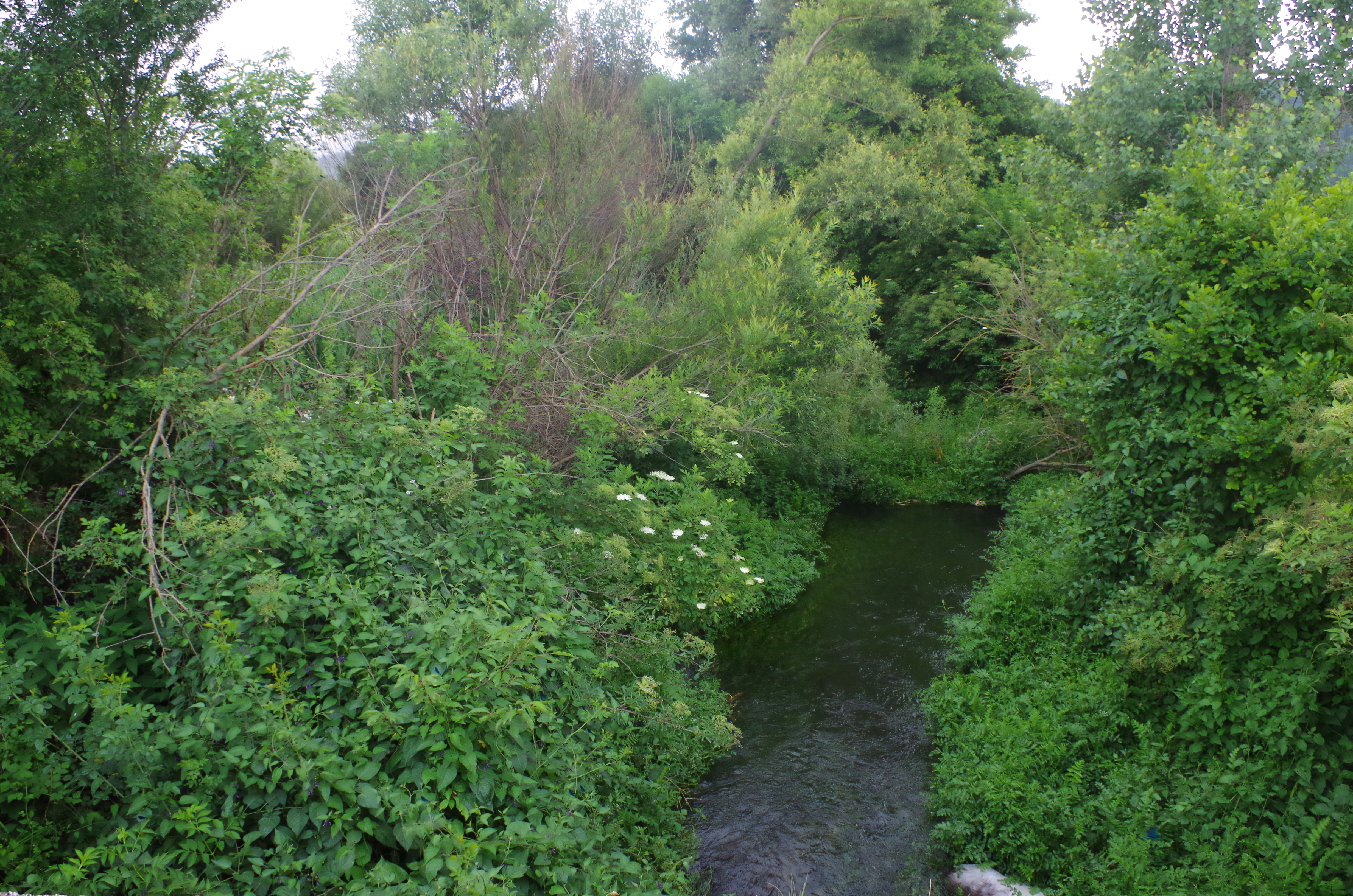 Matica river in Debarca valley, Ohrid Region, Macedonia